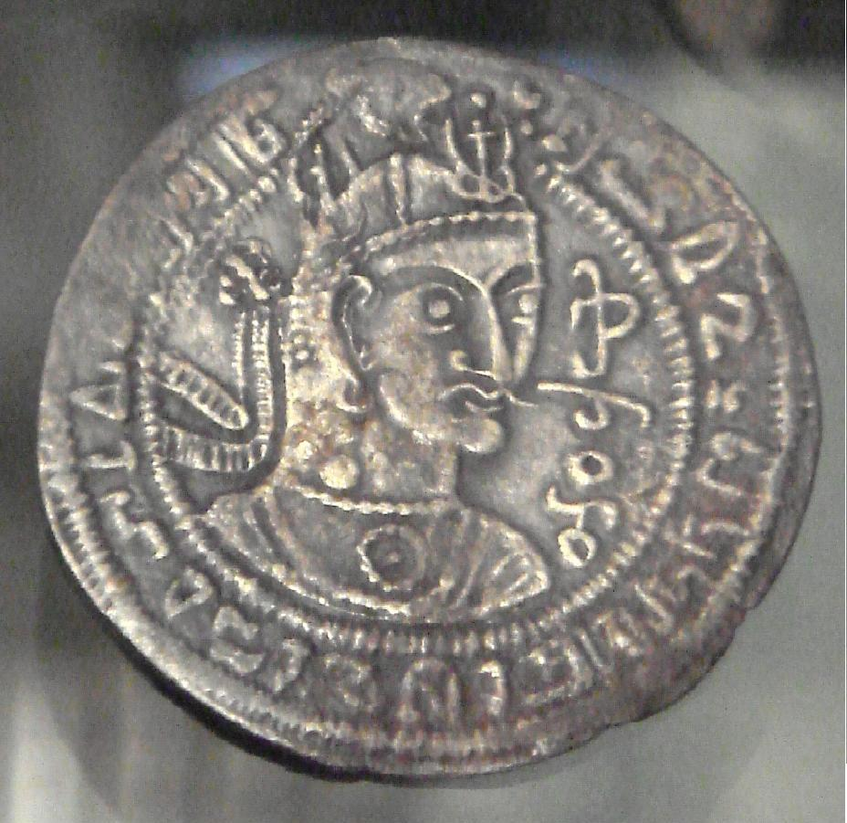 White_Hun, 4-5th century.